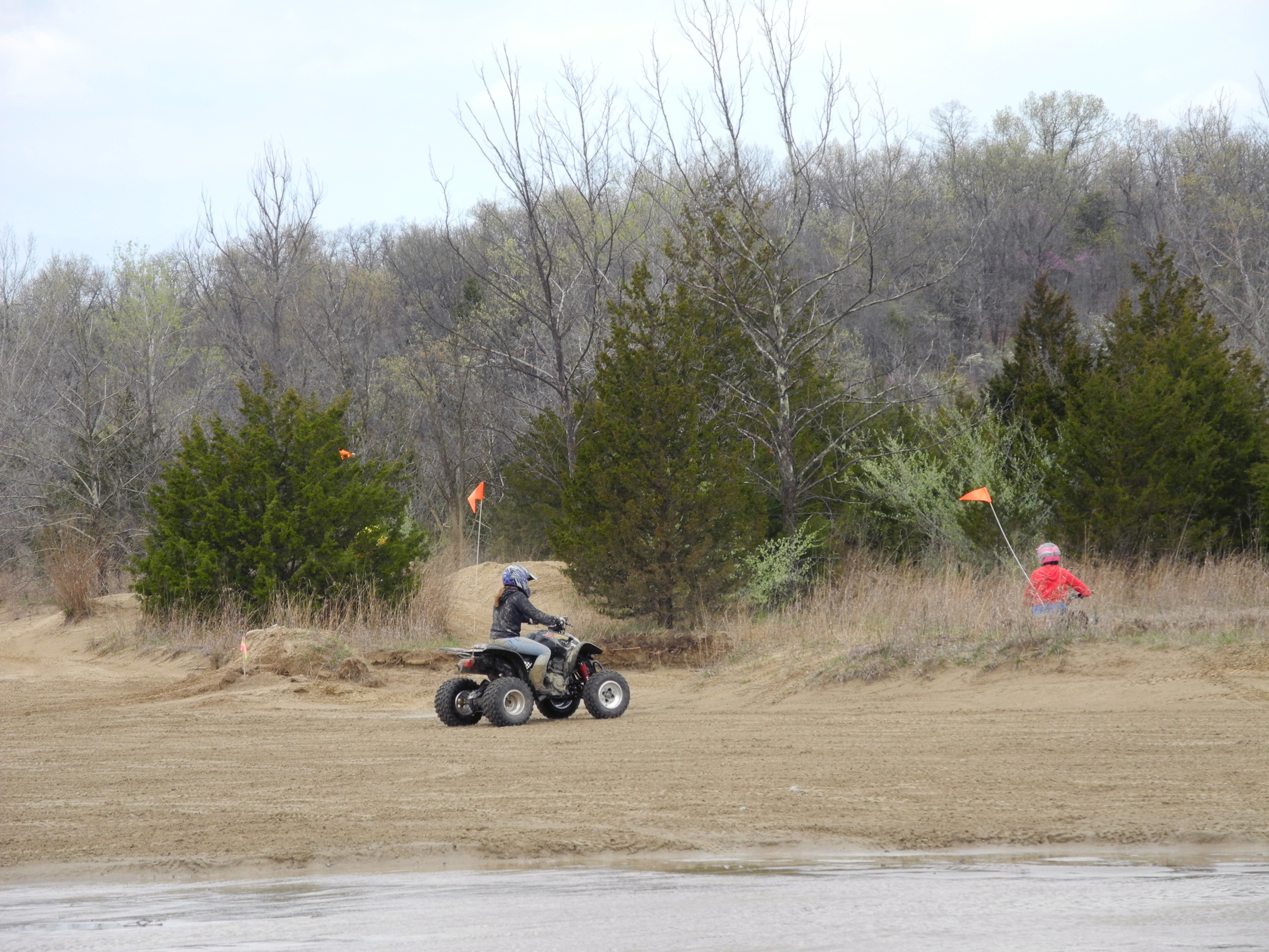 All-terrain vehicles at St. Joe State Park in Park Hills, Missouri